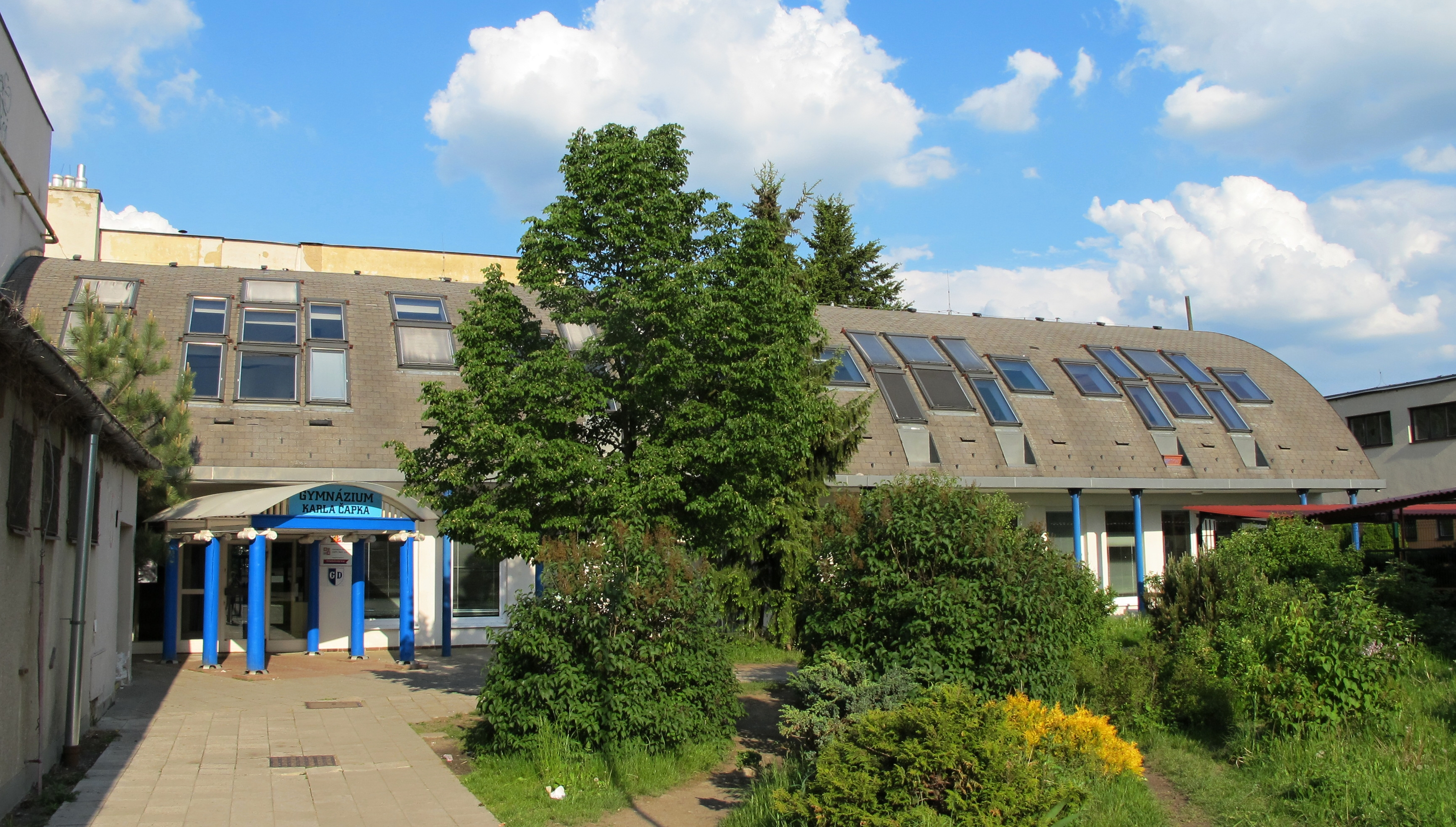 Gymnasium (secondary school) in Dobříš, Příbram District